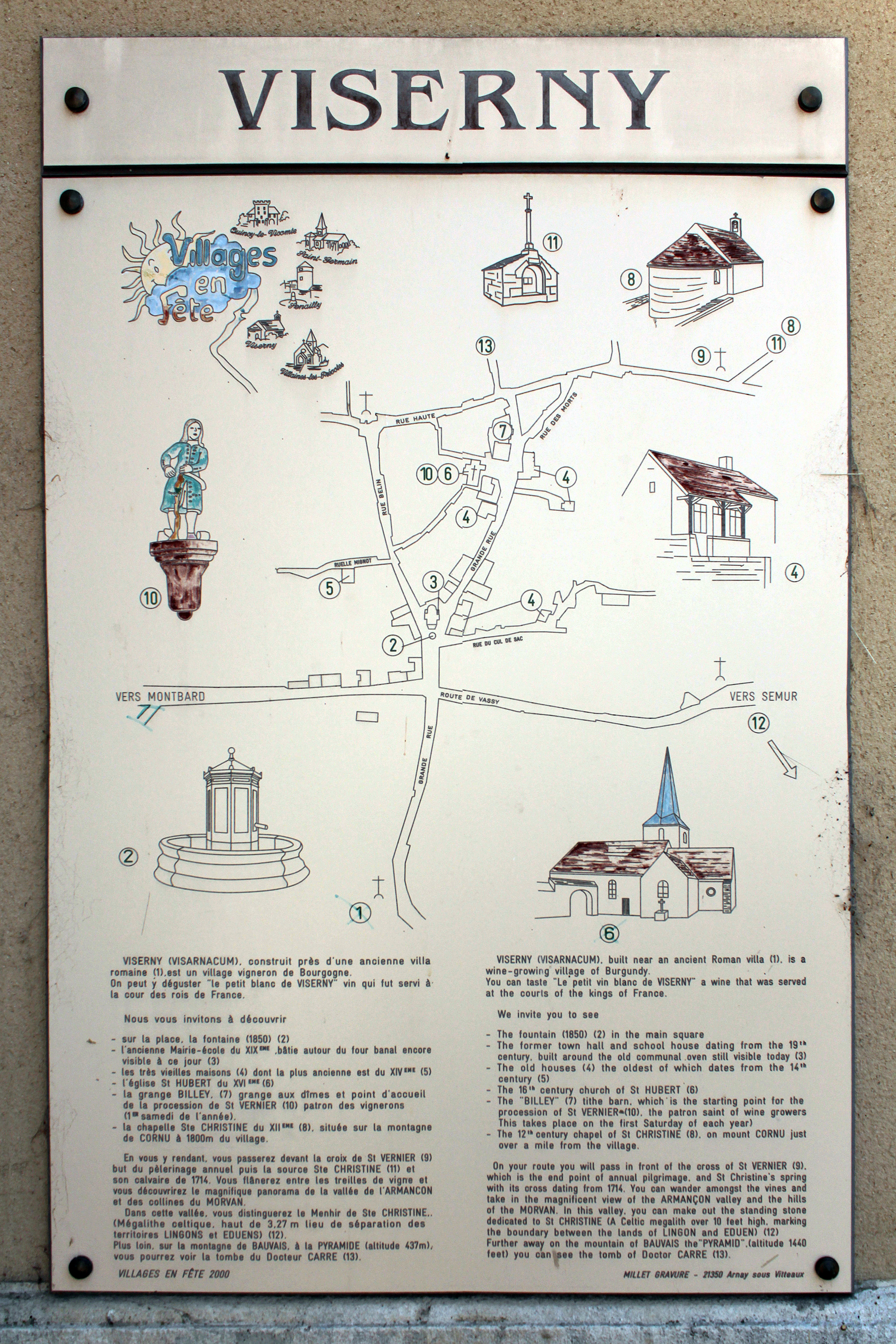 Tourist information board in Viserny